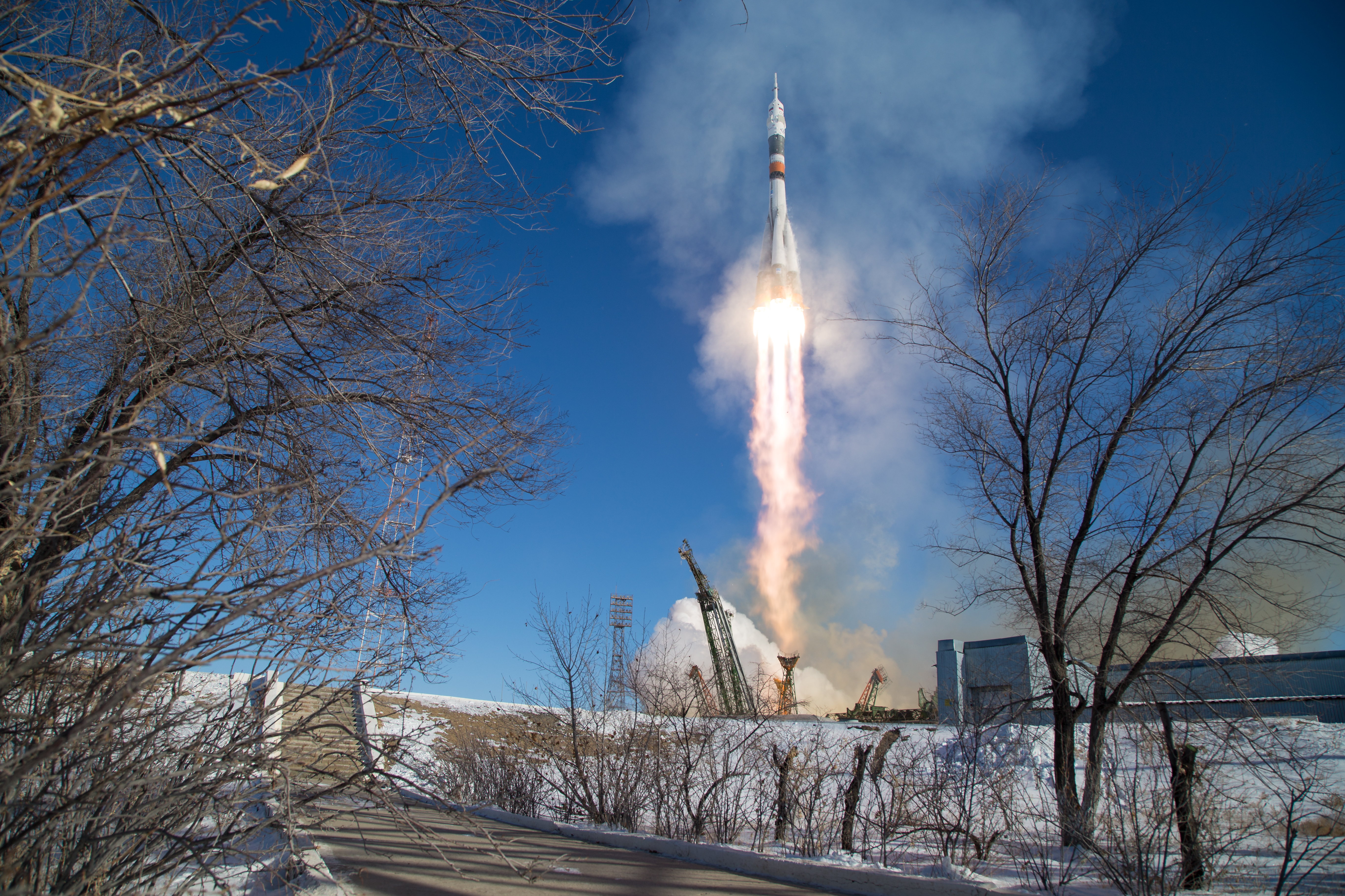 The Soyuz MS-07 rocket is launched with Expedition 54 Soyuz Commander Anton Shkaplerov of Roscosmos, flight engineer Scott Tingle of NASA, and flight engineer Norishige Kanai of Japan Aerospace Exploration Agency (JAXA), Sunday, Dec. 17, 2017 at the Baikonur Cosmodrome in Kazakhstan. Shkaplerov, Tingle, and Kanai will spend the next five months living and working aboard the International Space Station. Photo Credit: (NASA/Joel Kowsky)